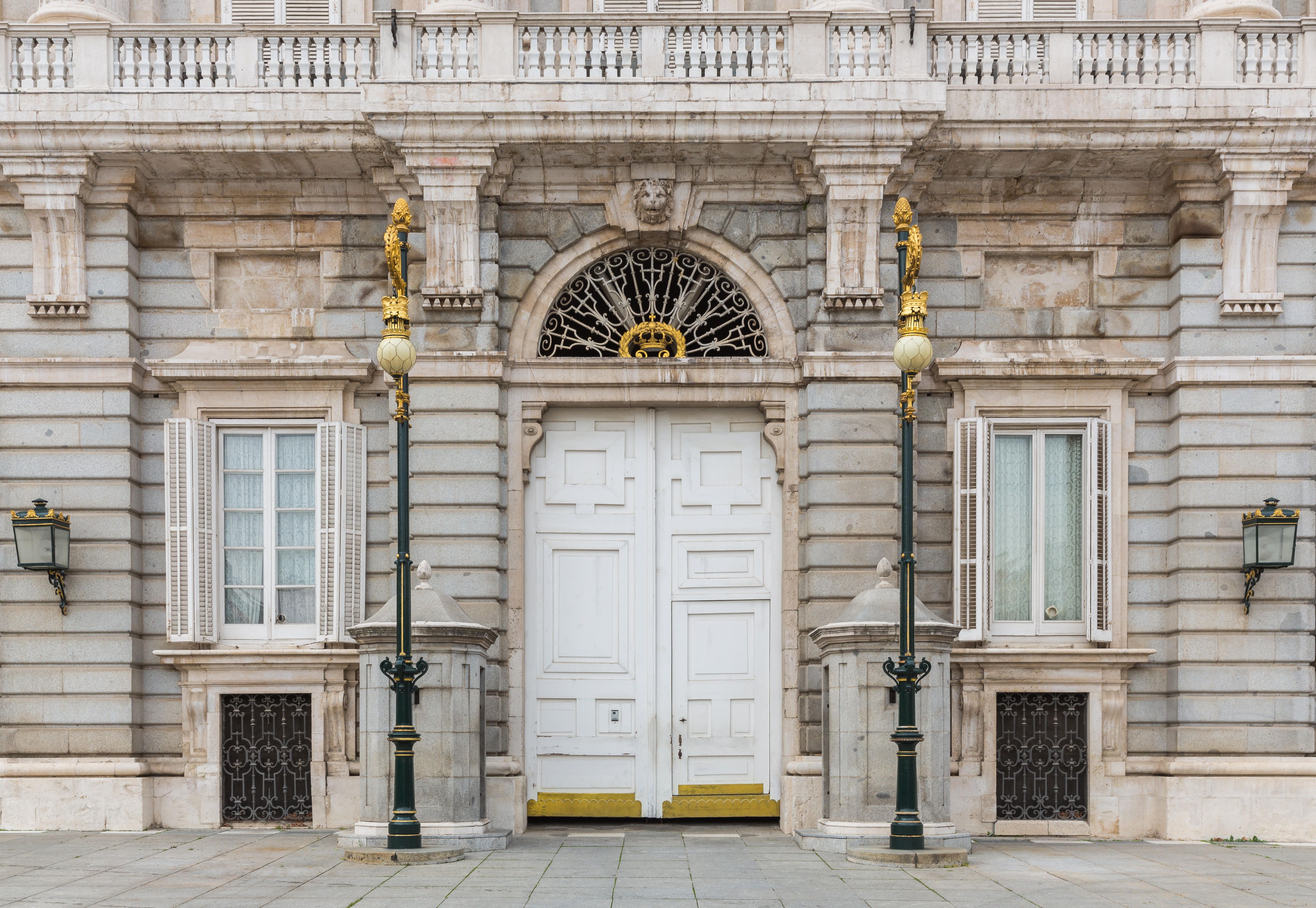 Royal Palace, Madrid, Spain